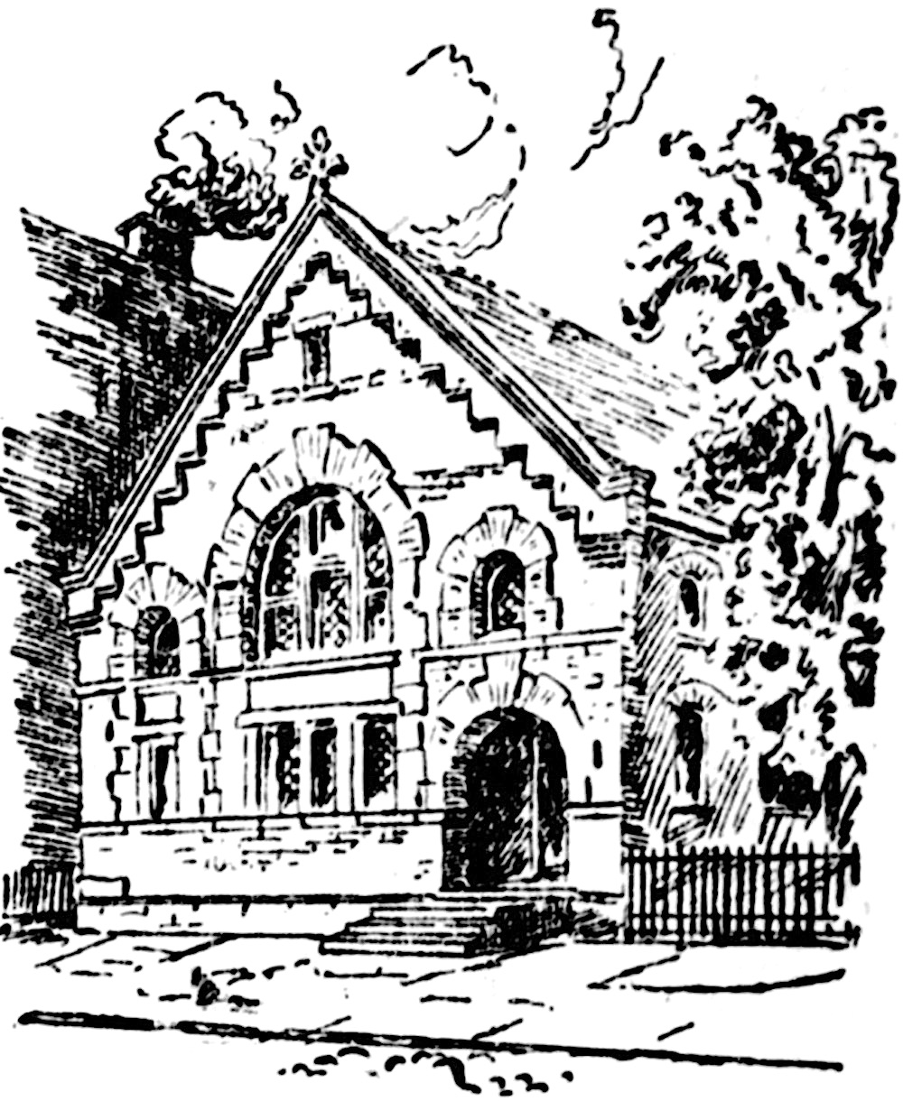 Illustration of the Lenox Presbyterian Church, 308–310 West 139th Street in Manhattan, New York City, in 1893. Today the building is the Grace Congregational Church in Harlem.